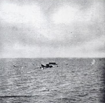 The steamer St. Lucia after the 1906 Florida hurricane.